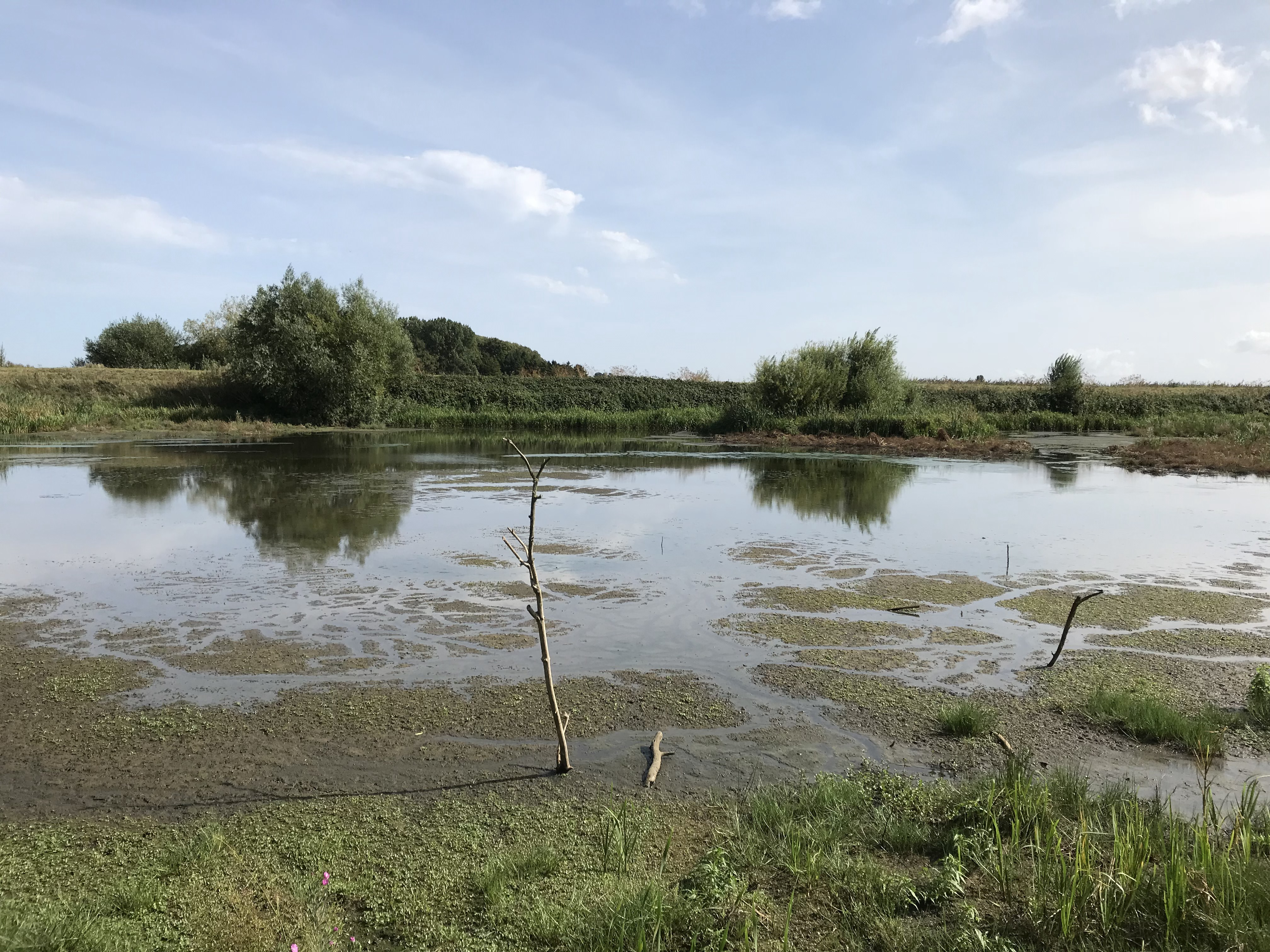 View from the North Lagoon hide at the Tophill Low nature reserve, Watton, East Riding of Yorkshire, England.Taken on the sunny afternoon of 30 August 2018.